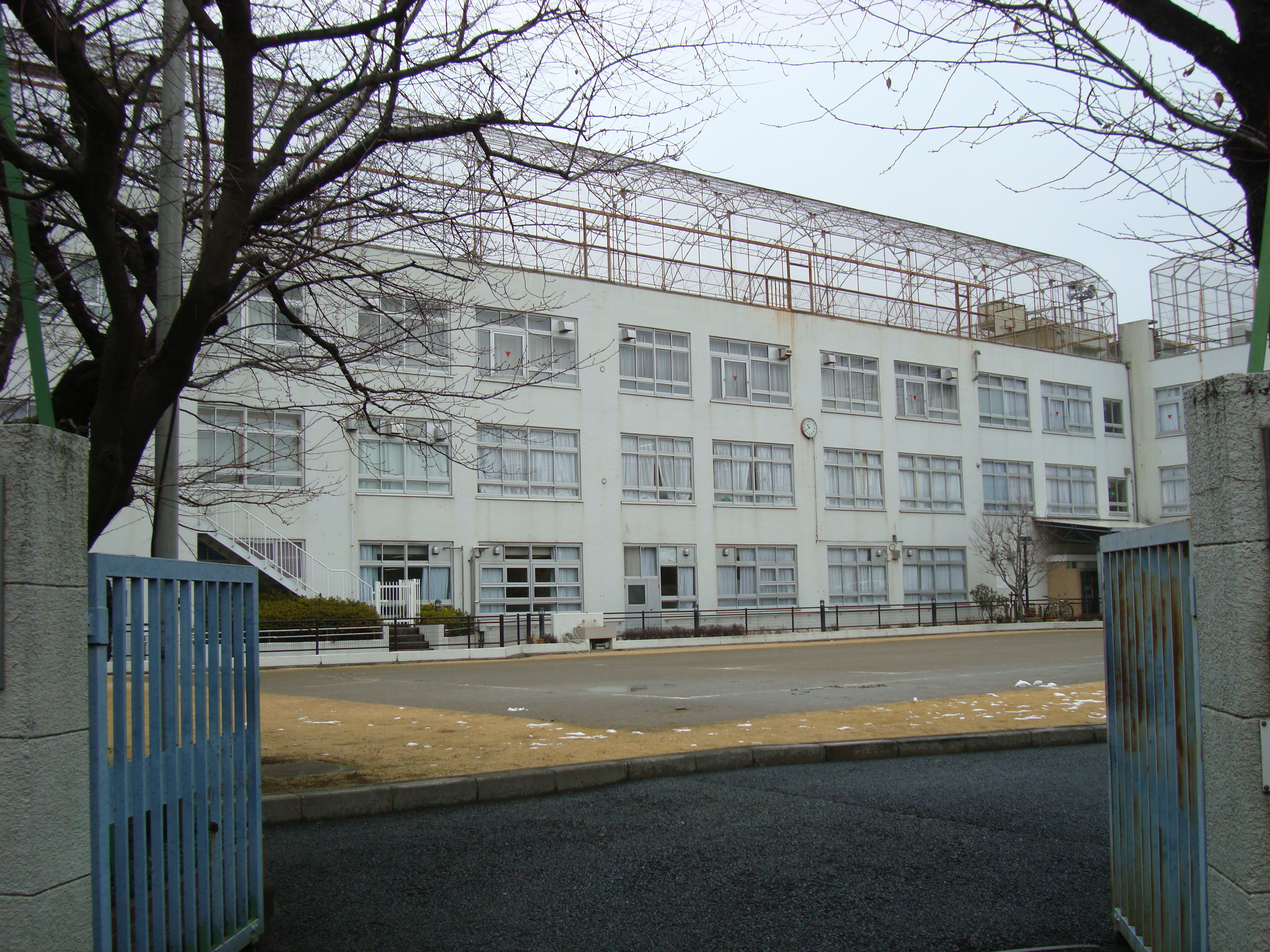 Former Harajuku Chugakko (Elementary shool) building, Harajuku, Tokyo